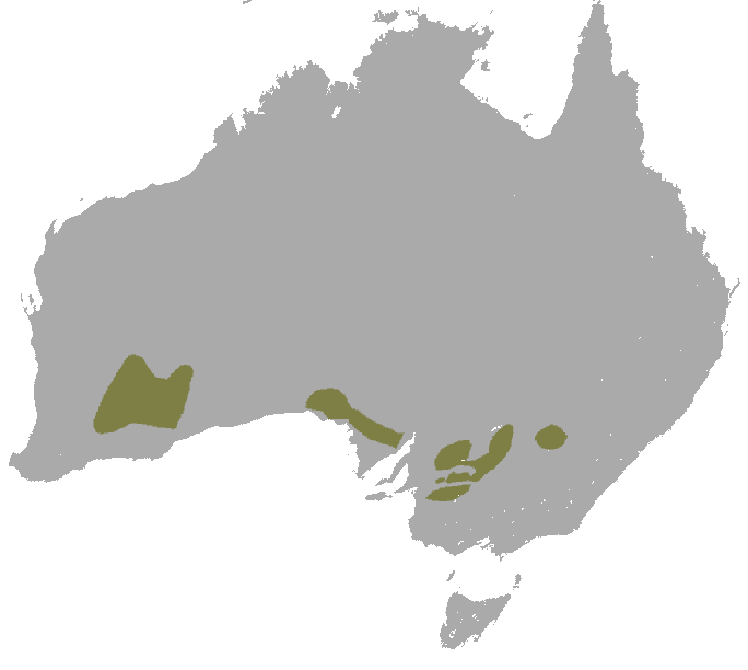 Southern Ningaui (Ningaui yvonneae) range